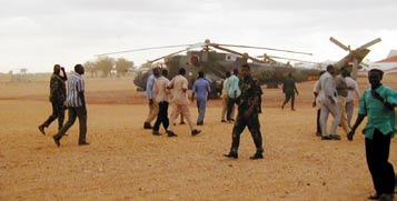 Original caption states, "We were told that airpower is used to attack villages. below, a helicopter gunship parked at Geneina airport." In Darfur, Sudan.